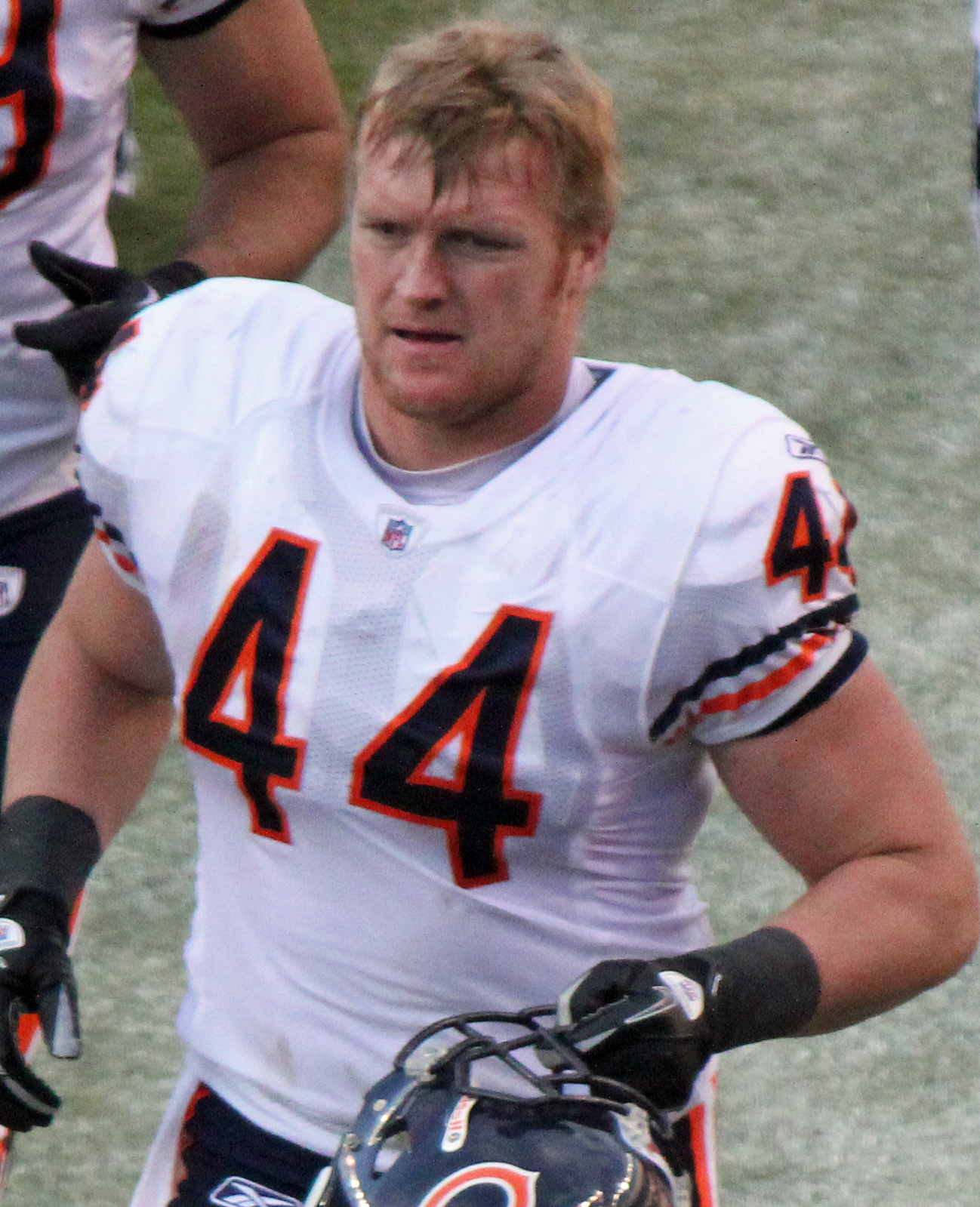 Tyler Clutts, a National Football League player.